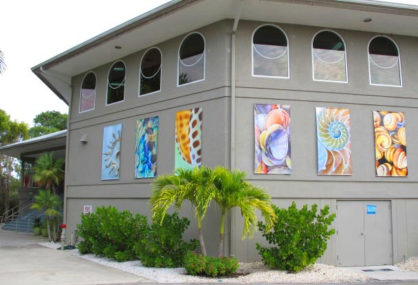 A 2014 view of the museum with the new shell photo banners in place